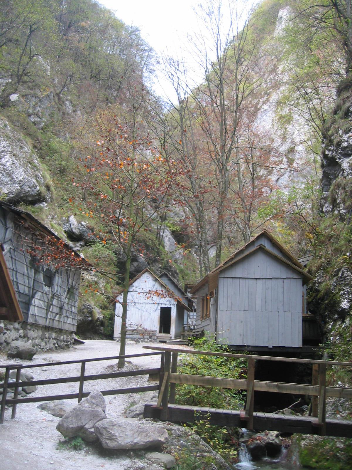 Partisan hospital "Franja" near Cerkno, Slovenia (WW2) photo:Ziga 18:08, 29 October 2006 (UTC)